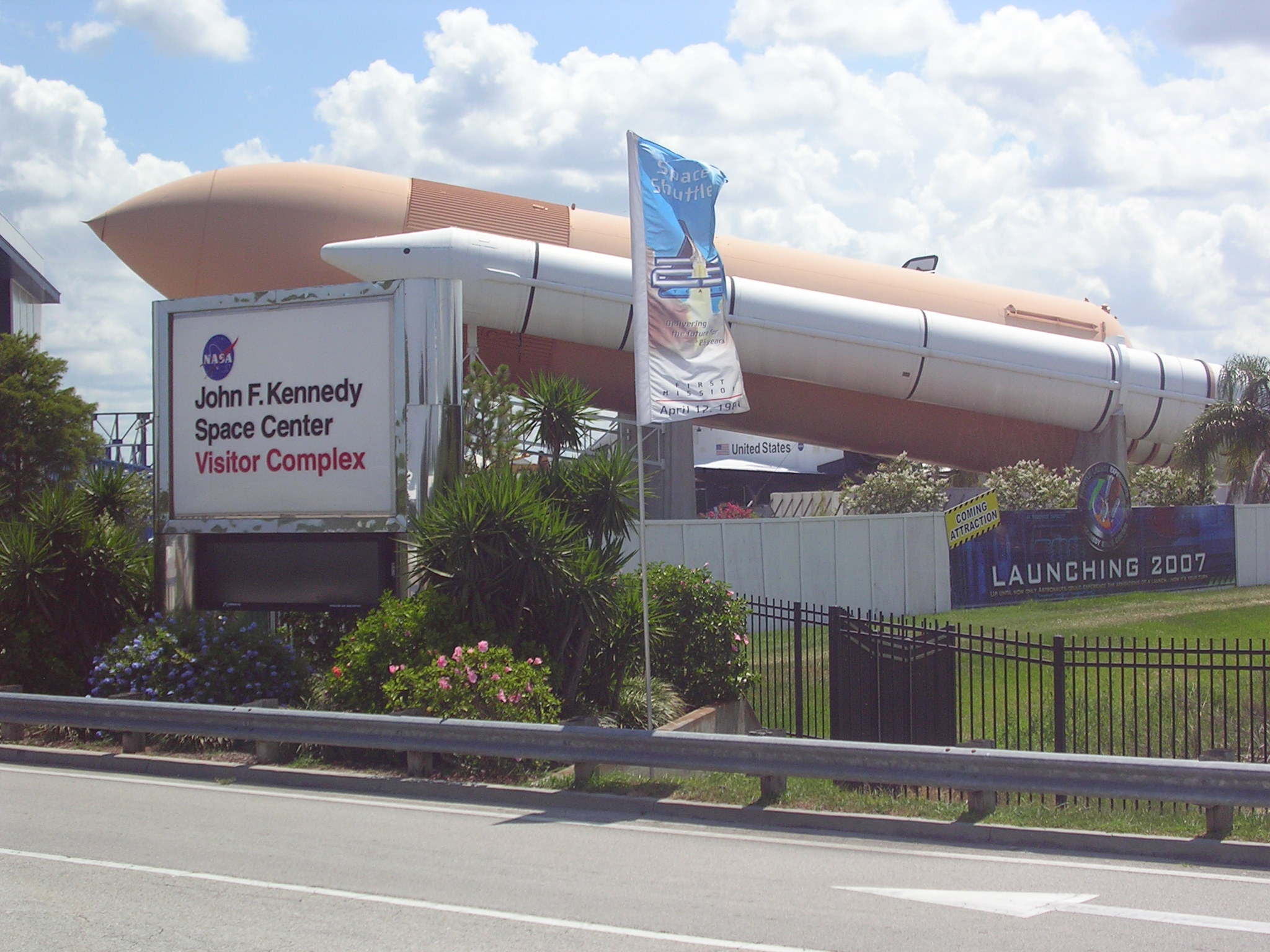 Kennedy Space Center Visitor's Center front gate - taken by Ed Leung on 22 July 2006